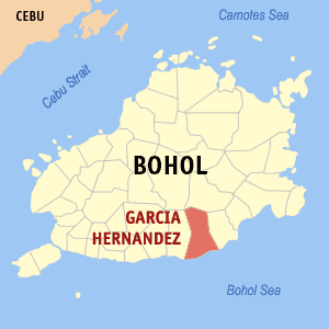 Map of Bohol showing the location of Garcia Hernandez